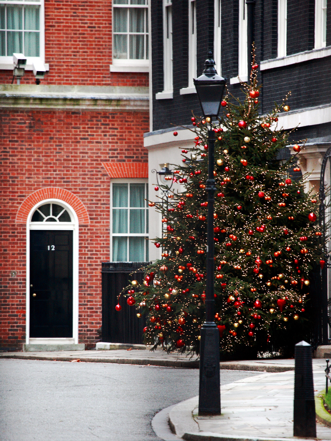 I wonder if the PM hangs his balls from the top, personally ? Captain Roger Fenton " Nonpareil Conceptualization "